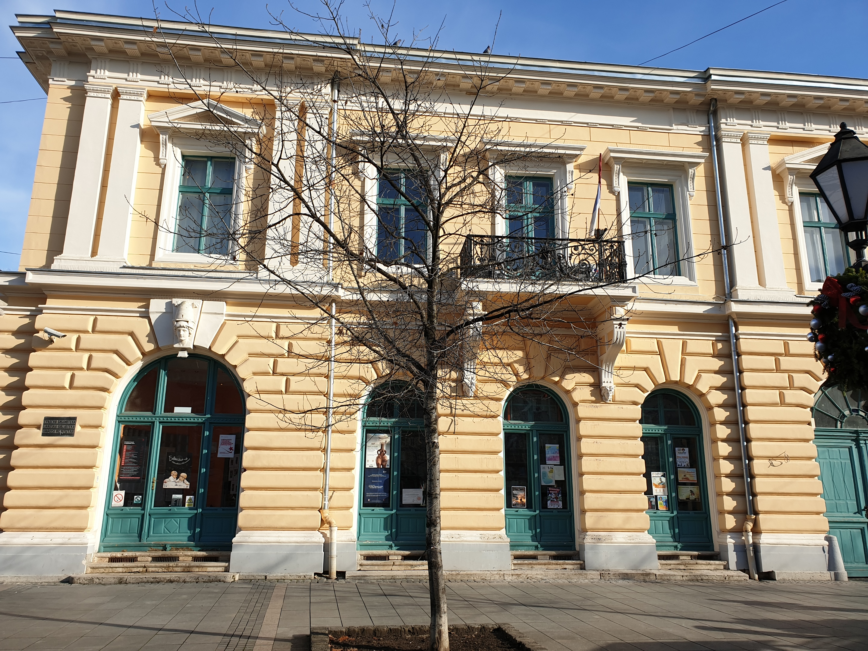 Gradska biblioteka